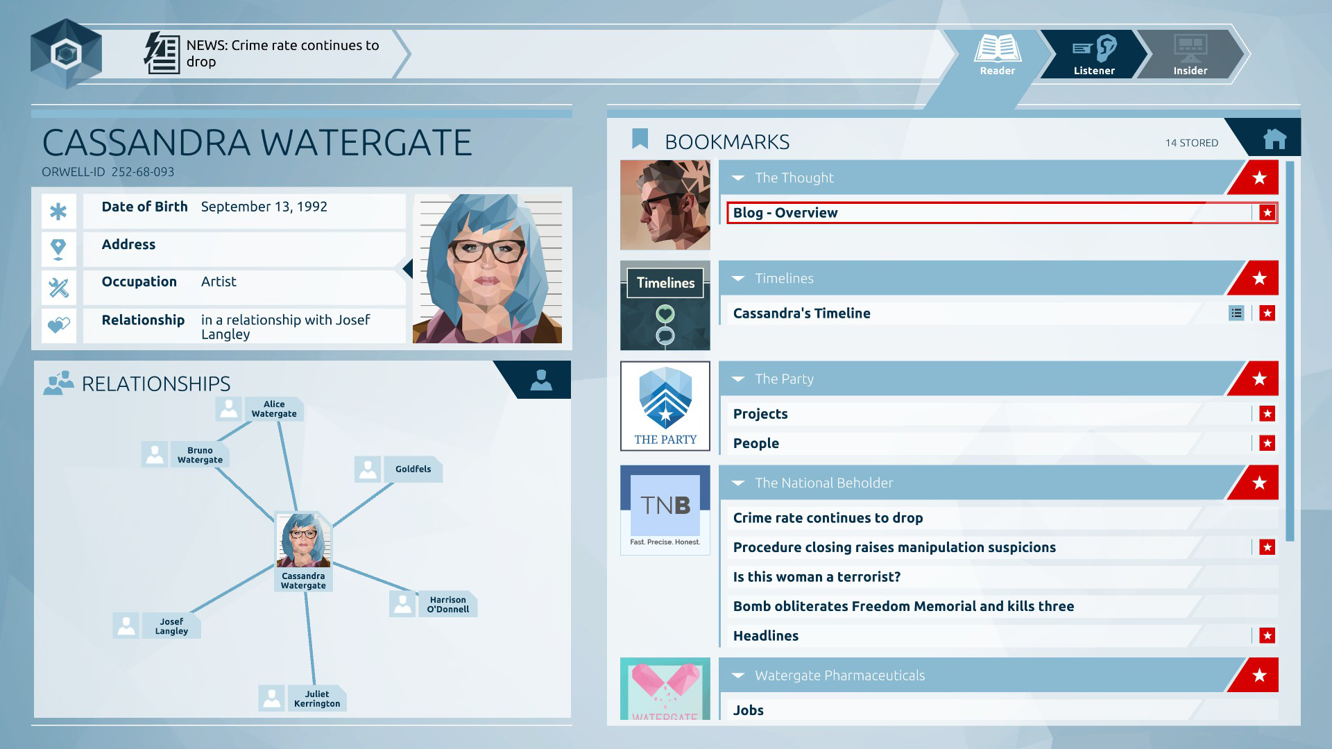 Screenshot of Orwell